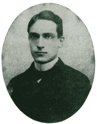 Romanian critic Paul Zarifopol (1874 - 1934), photographed in 1891 for his Baccalaureate examination the following year.